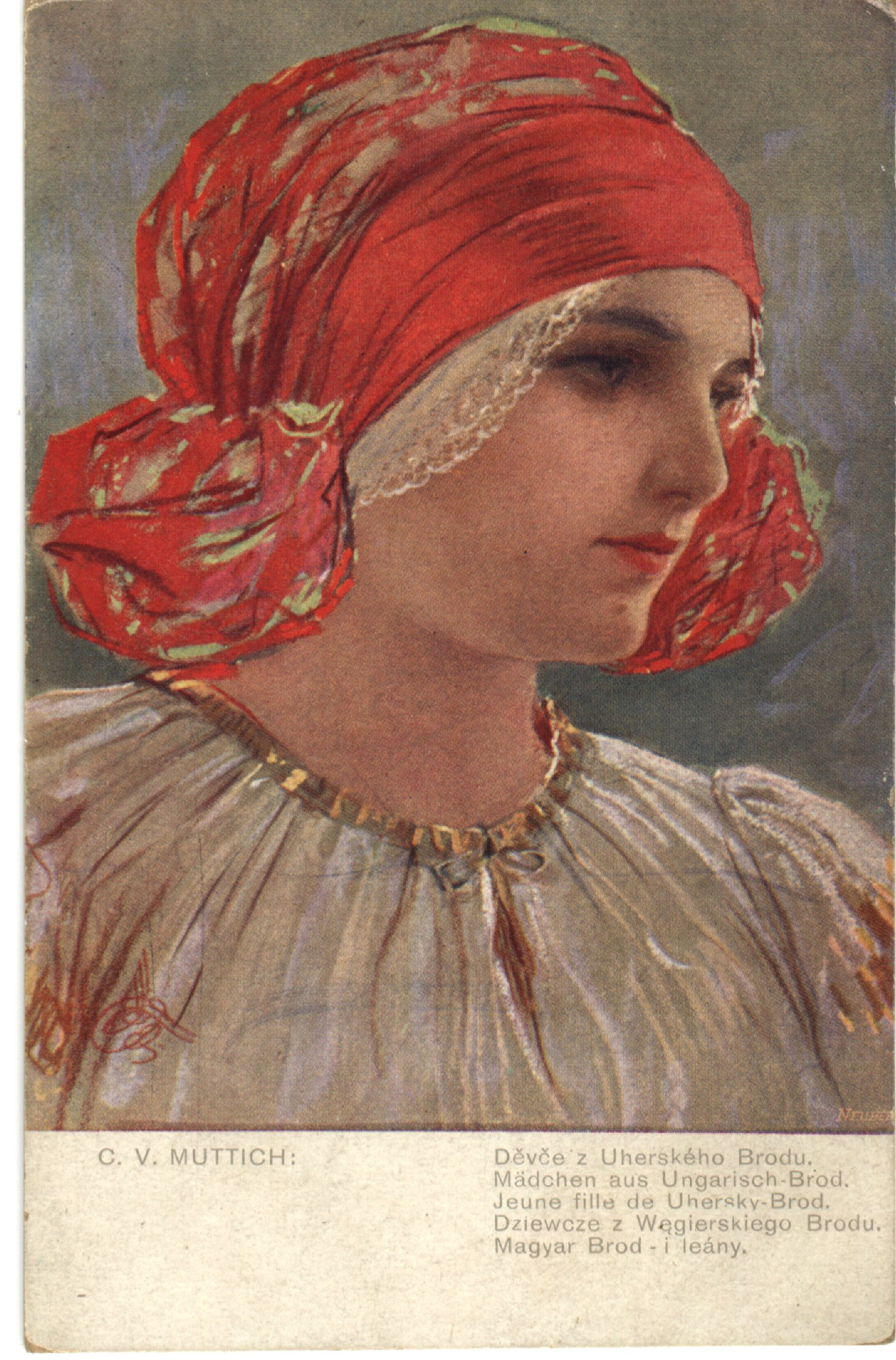 C.V.Muttich: Girl from Uherský Brod